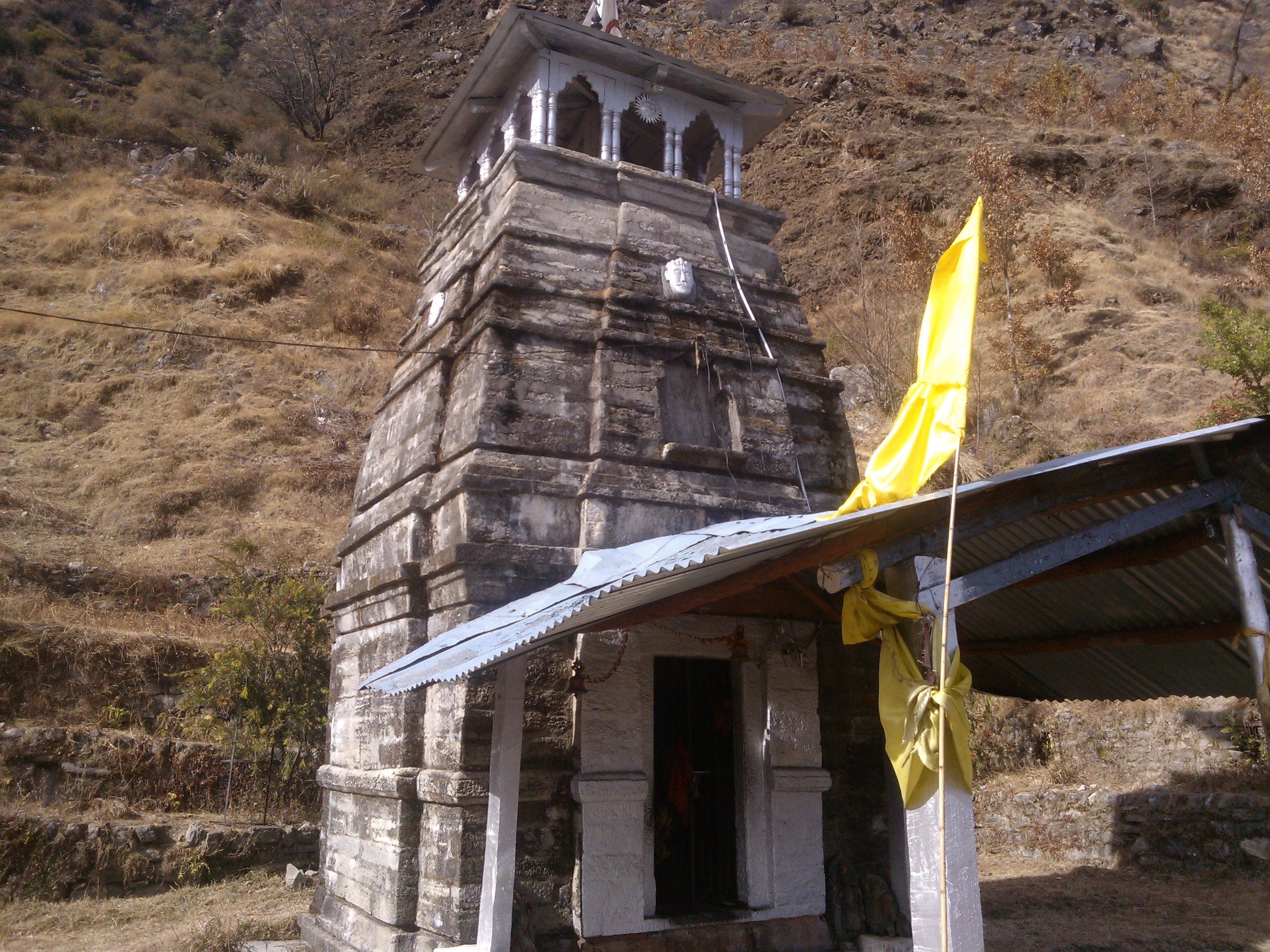 Small temple enroute to Deoria Taal